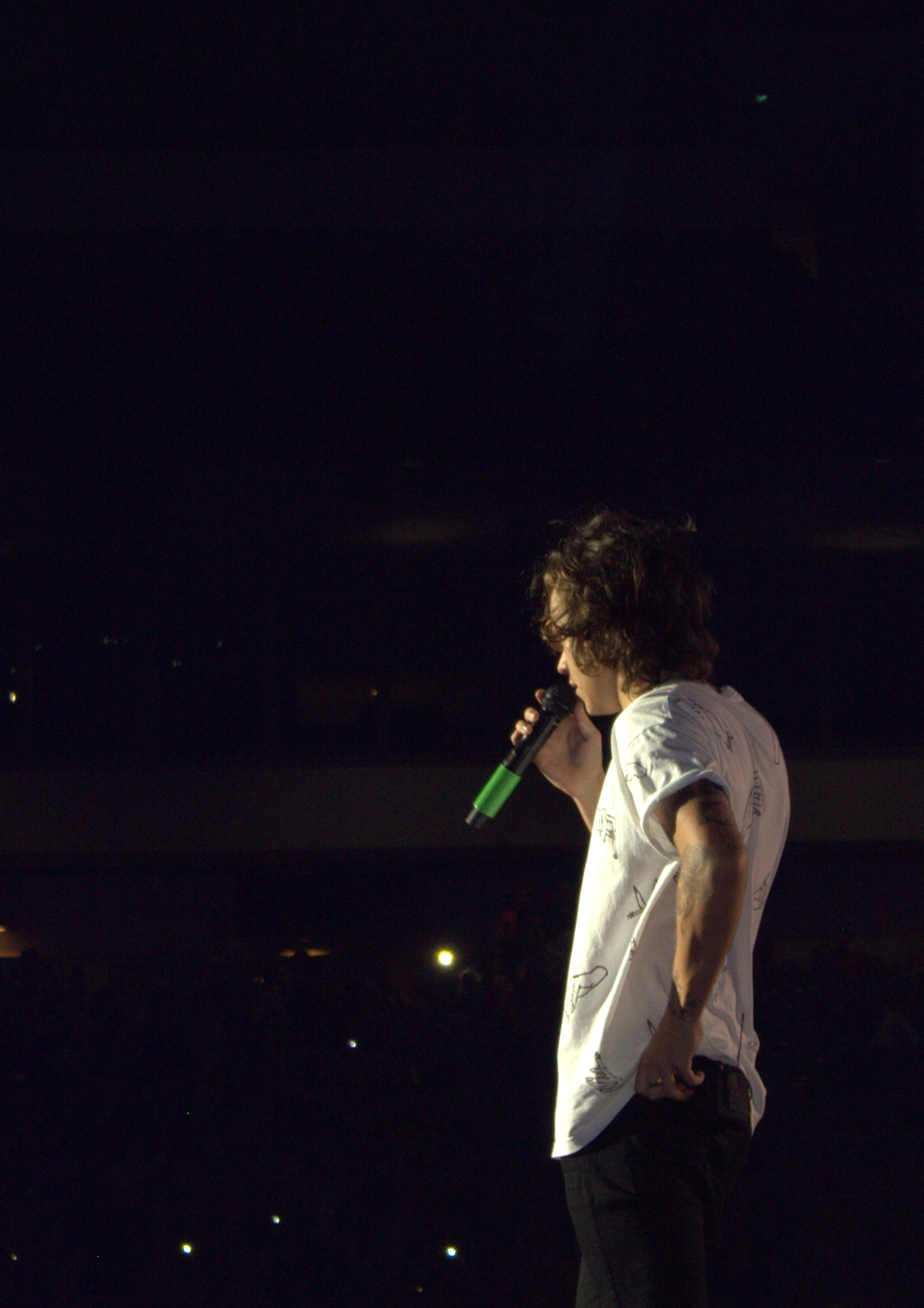 One Direction "Where We Are Tour" 2014.